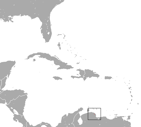 Slim-faced Slender Mouse Opossum (Marmosops cracens) range